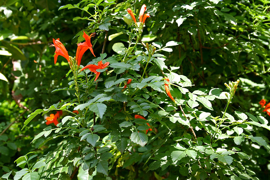 Cape Honeysuckle Tecoma capensis (syn. Tecomaria capensis) in Hyderabad, India.